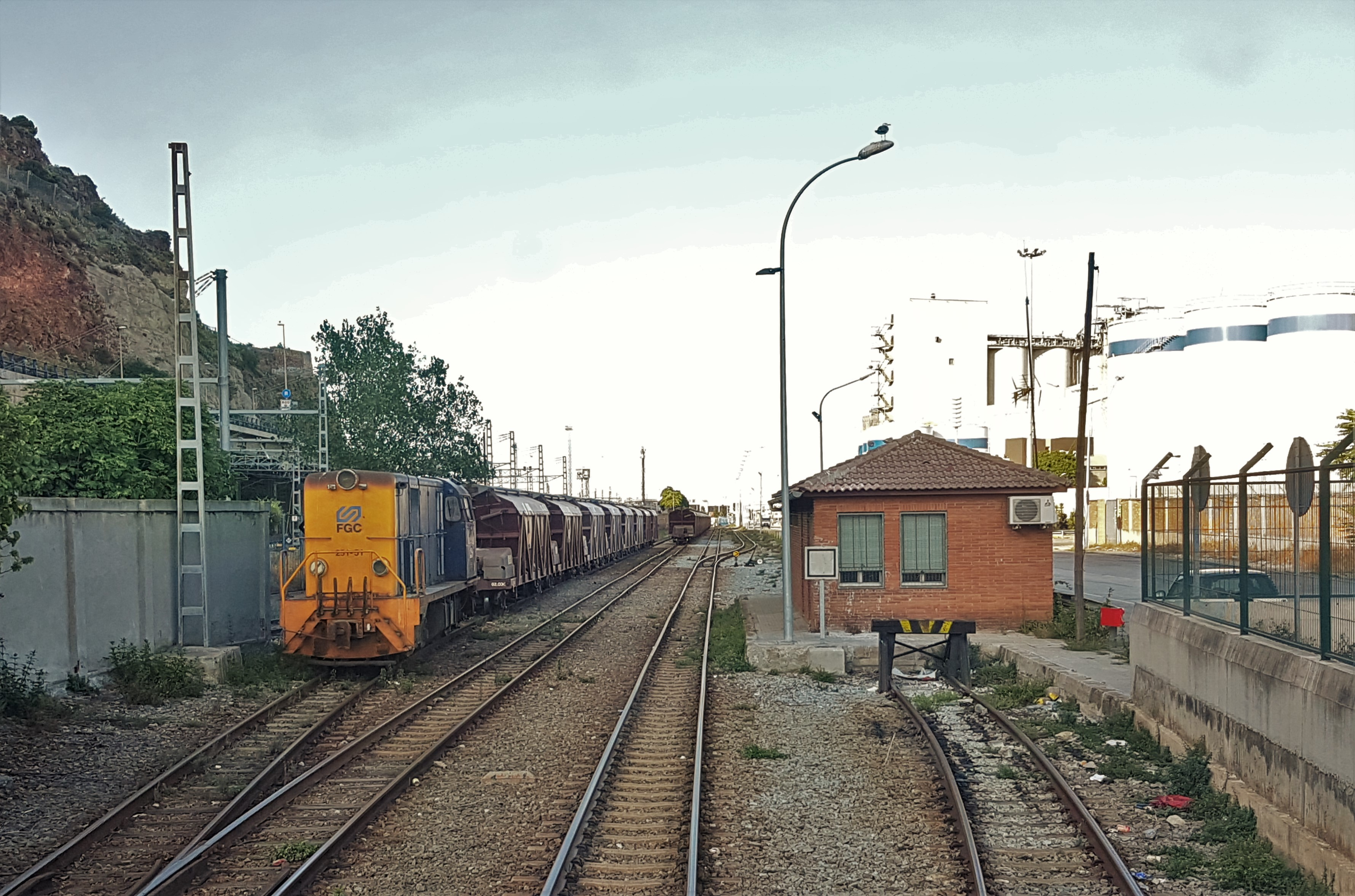 Barcelona-El Port station of Ferrocarrils de la Generalitat de Catalunya, seen from the entrance on the Sant Boi side.